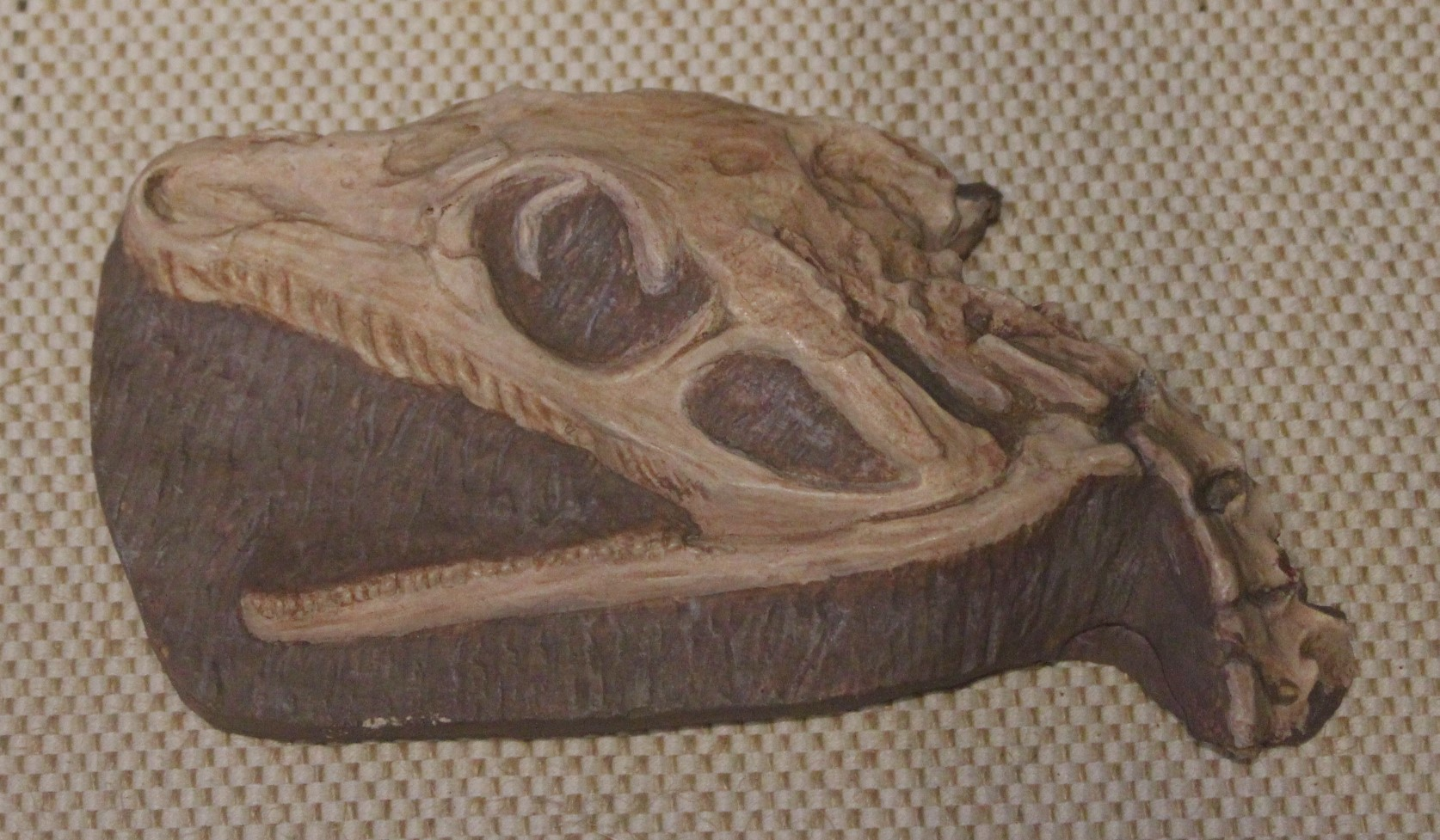 Skull of Aerosaurus sp. on display at the Paleozoological Museum of China.